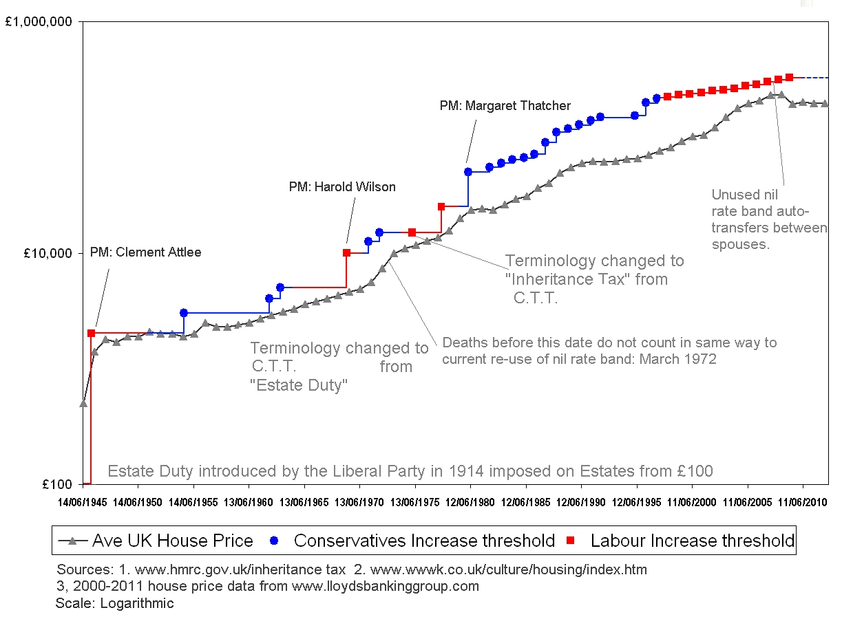 UK Estate Duty, Capital Transfer Tax and Inheritance Tax chart 1914-2012